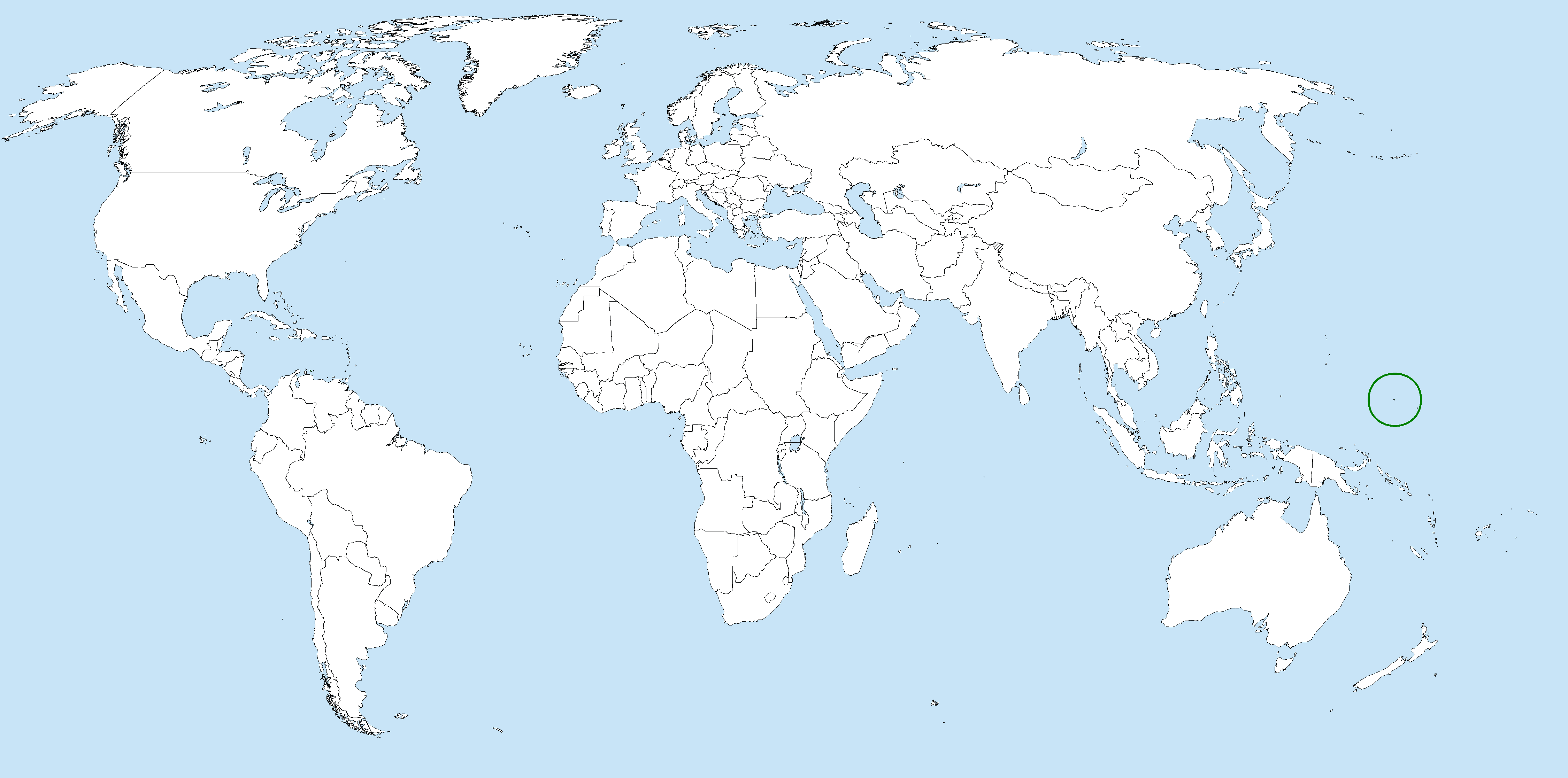 Acrocephalus rehsei range map